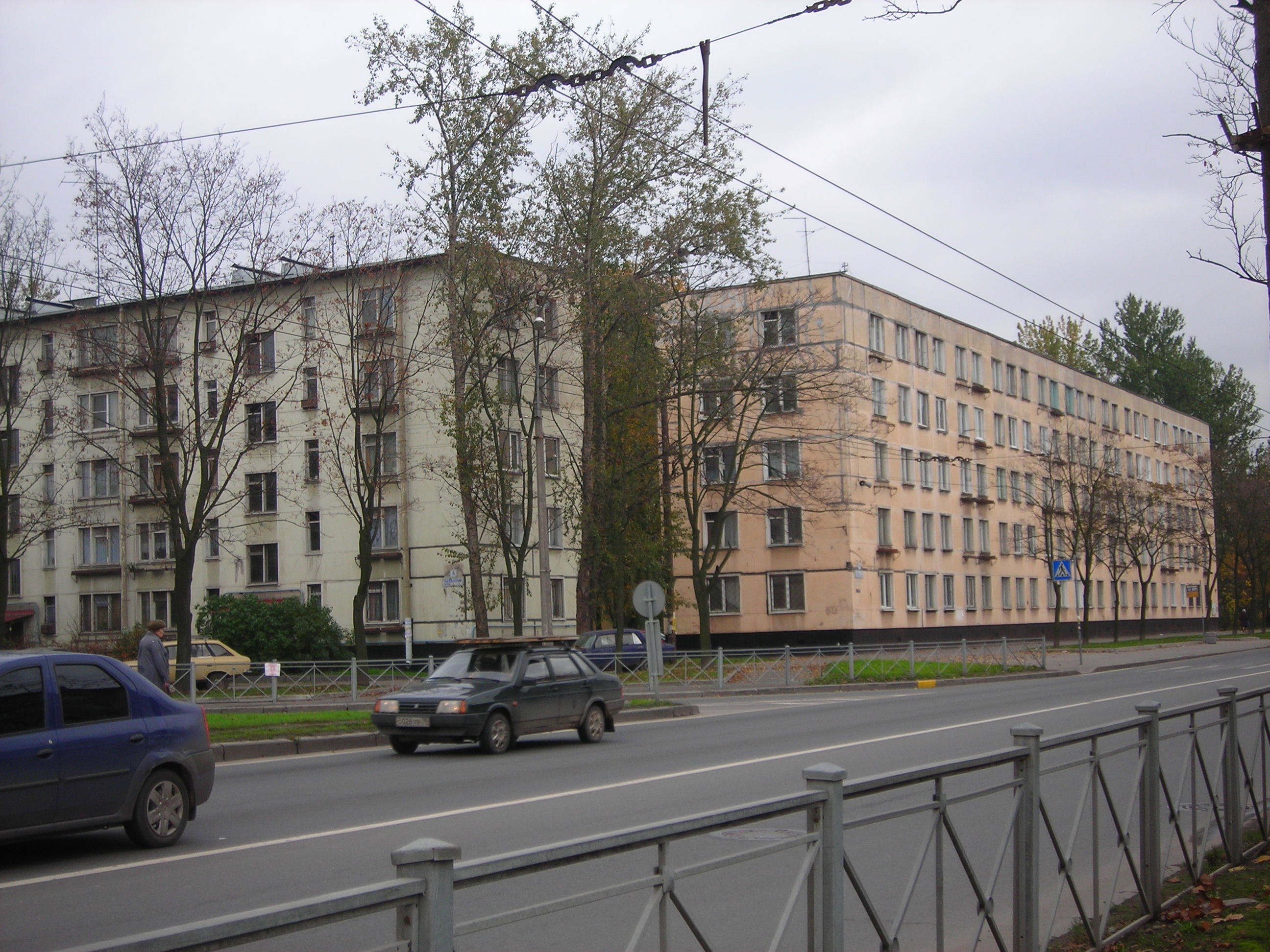 houses, builded in 1960-1970 years, Spb